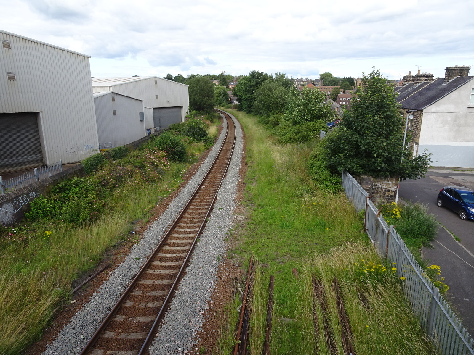 Summer Lane railway station (site), YorkshireOpened in 1850 by the South Yorkshire Railway, later part of the Manchester Sheffield & Lincolnshire Railway, on the line from Penistone to Barnsley, this station closed to passengers in 1959 and was demolished. View north east towards Barnsley. When it was open, there were two tracks and two parallel curved platforms here. The main building would have been on the right of the image.